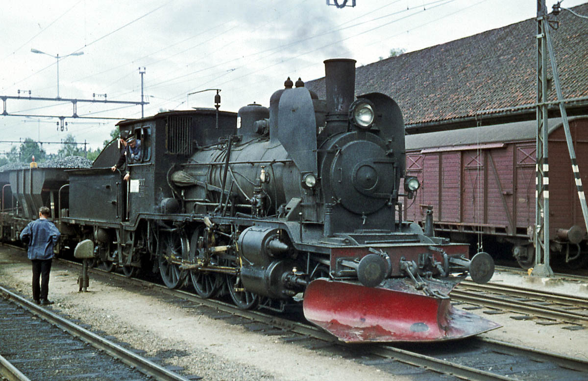 NSB class 21e No. 207. Kongsberg 1970